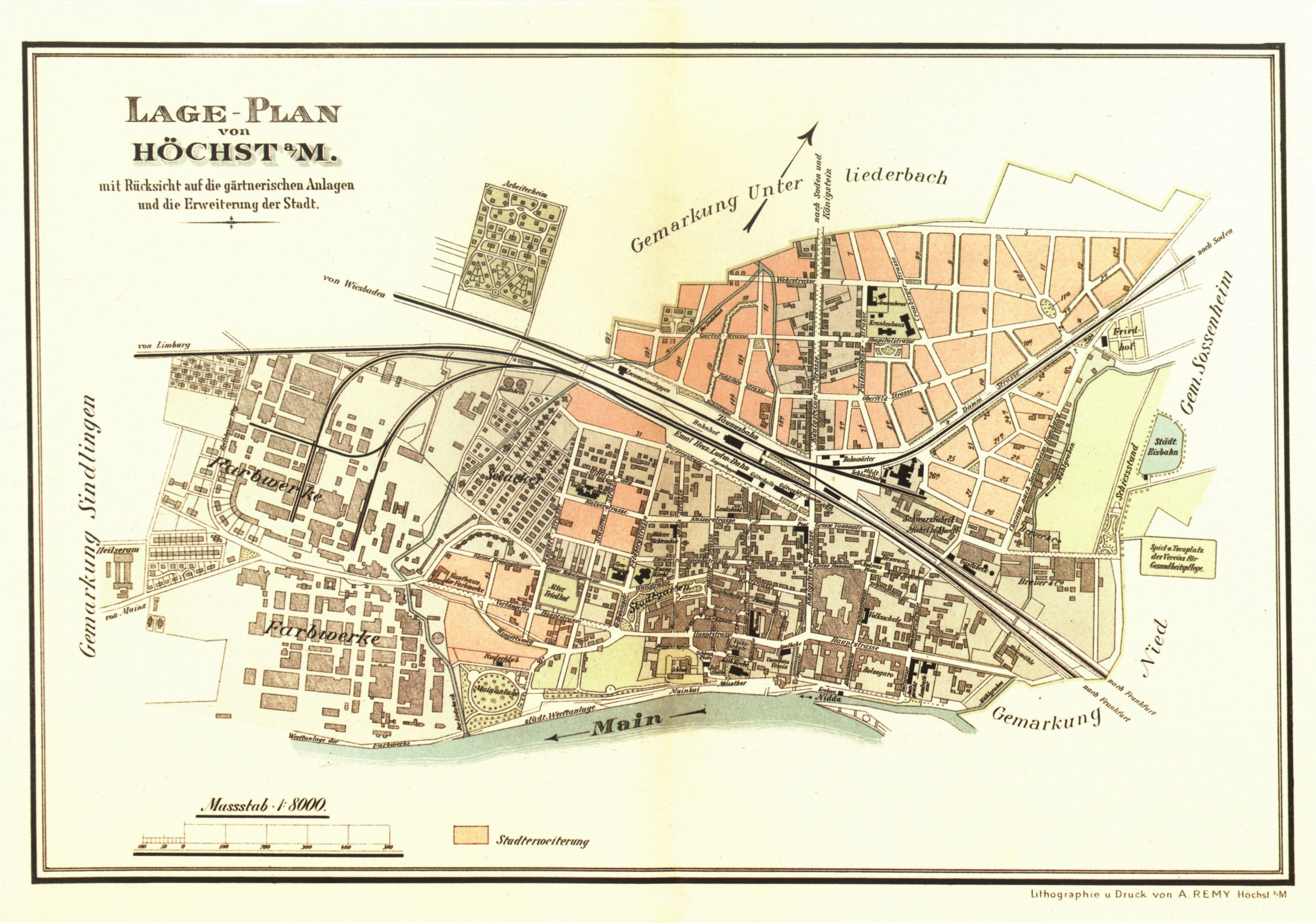 Town map of Höchst on Main from 1897/1898